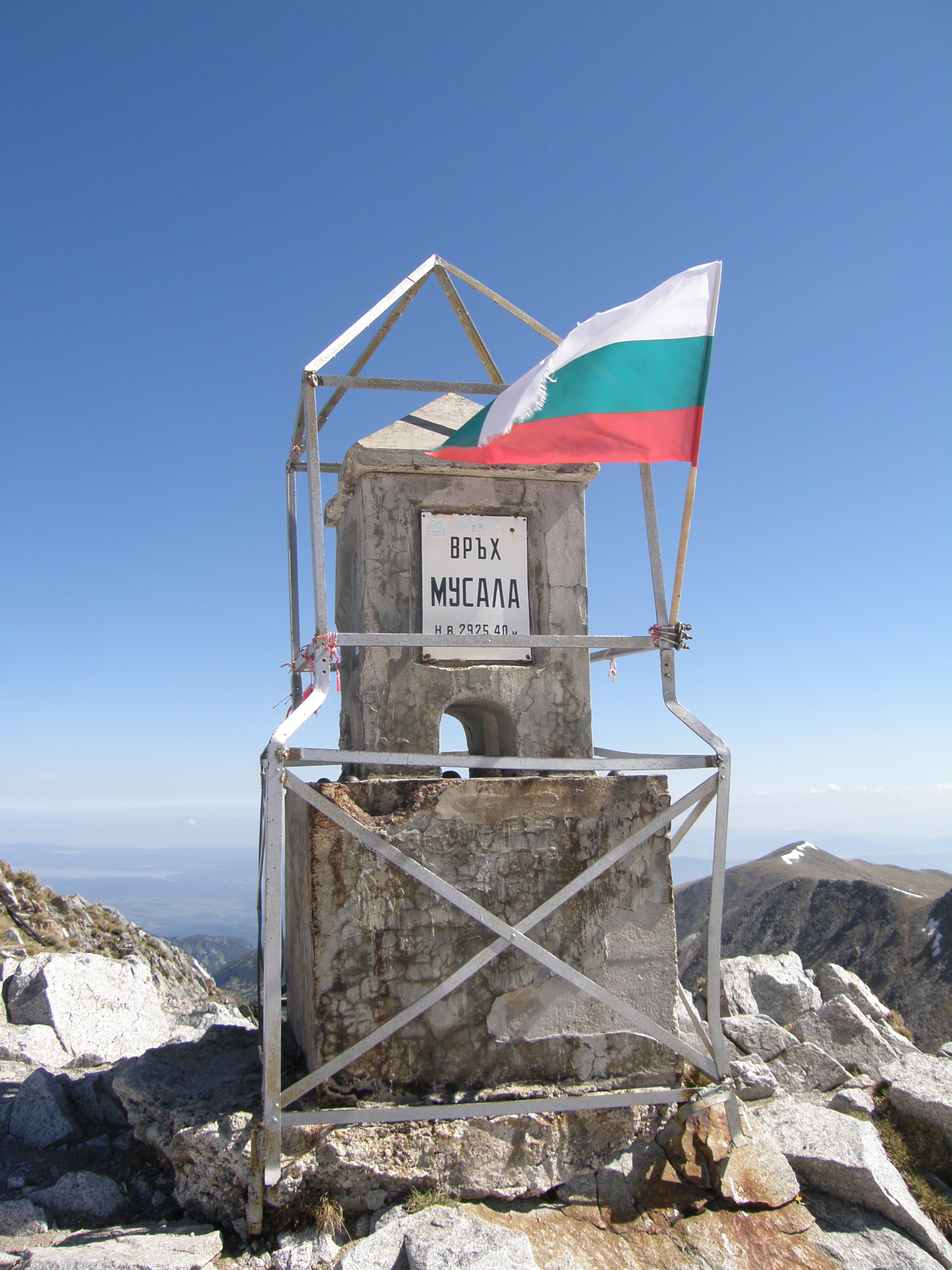 Musala summit.